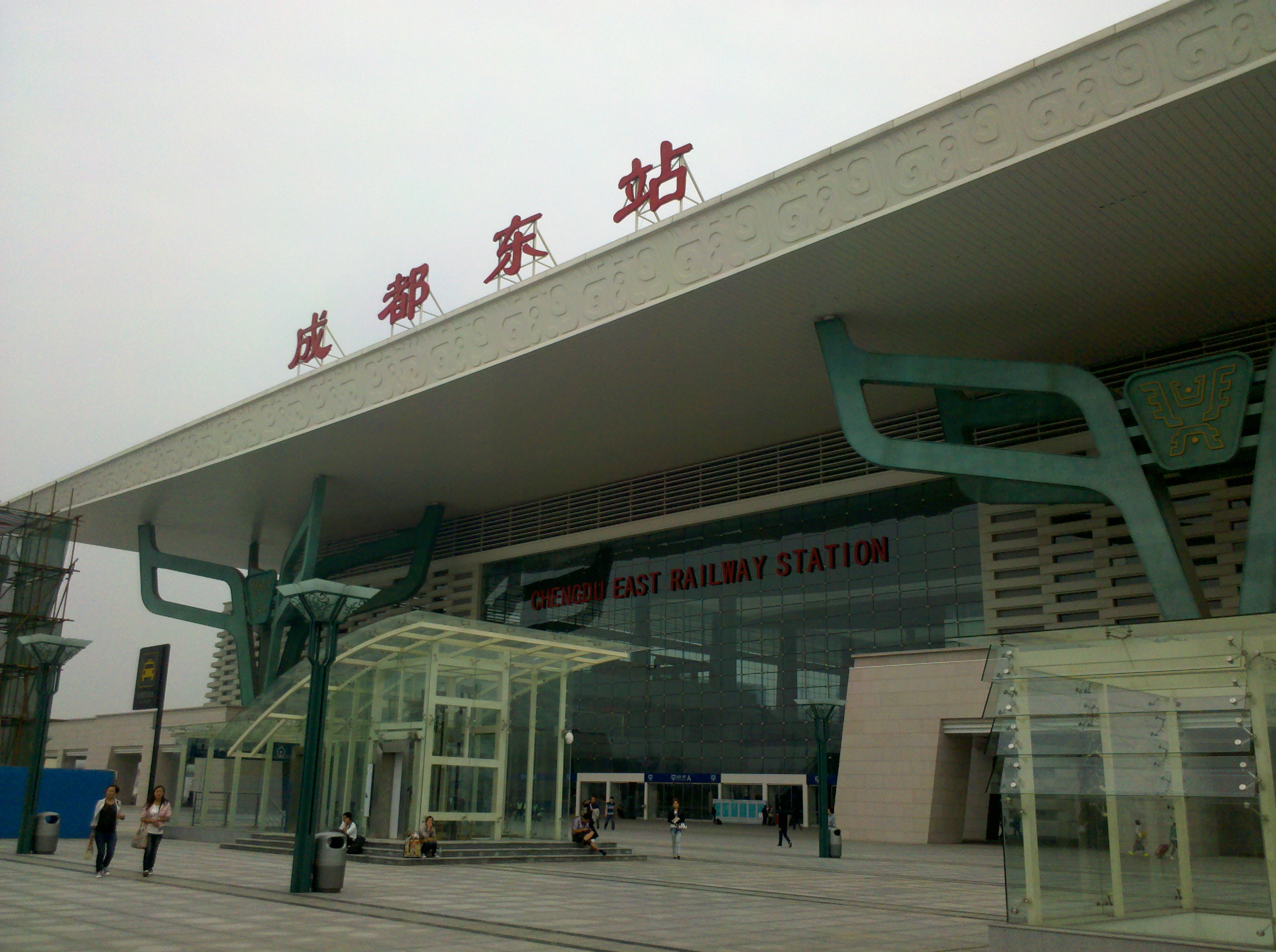 Chengdu East Railway Station